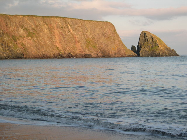 St John's Island at sunset, Ballydowane Bay